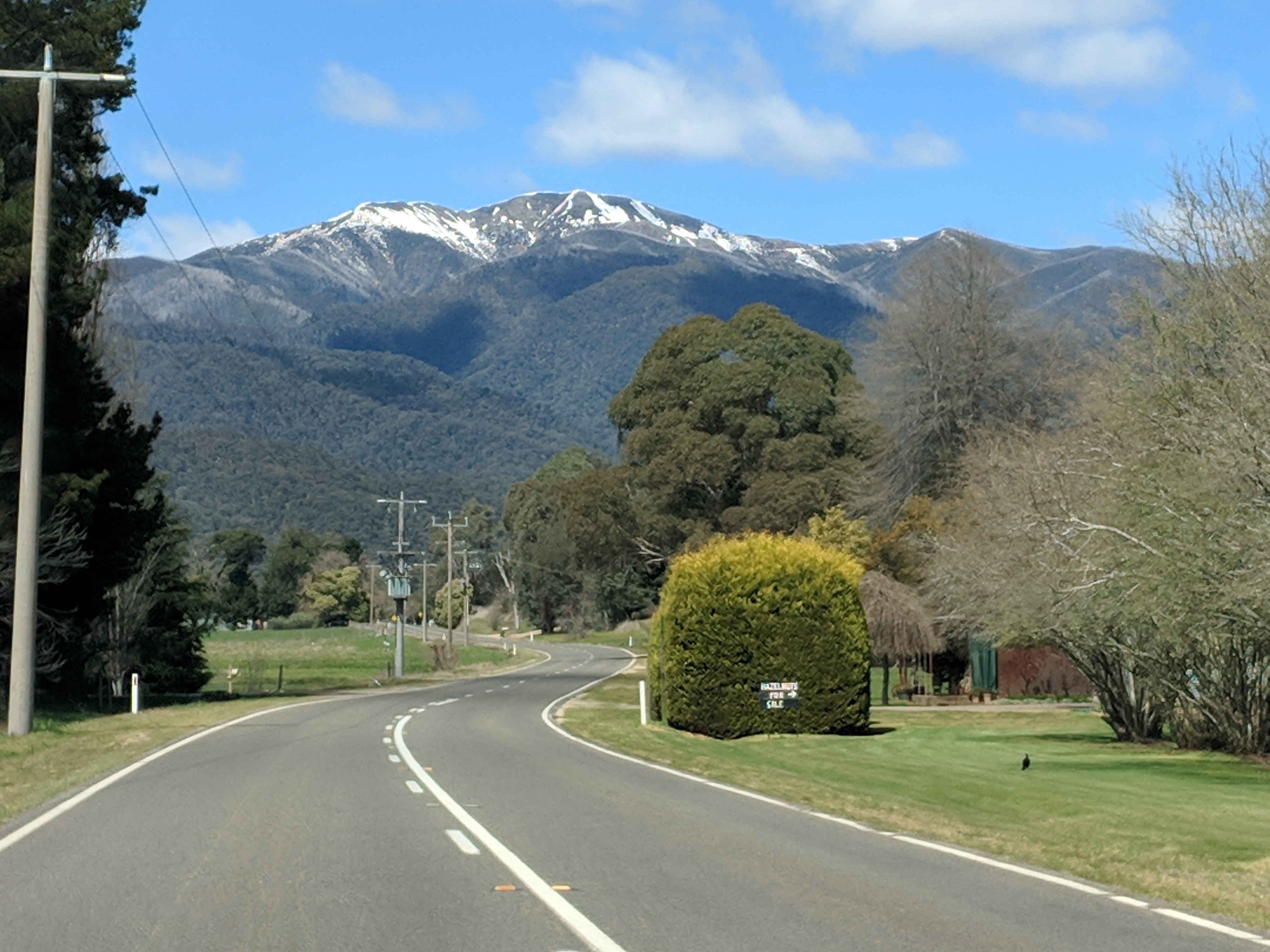 Bright, Victoria